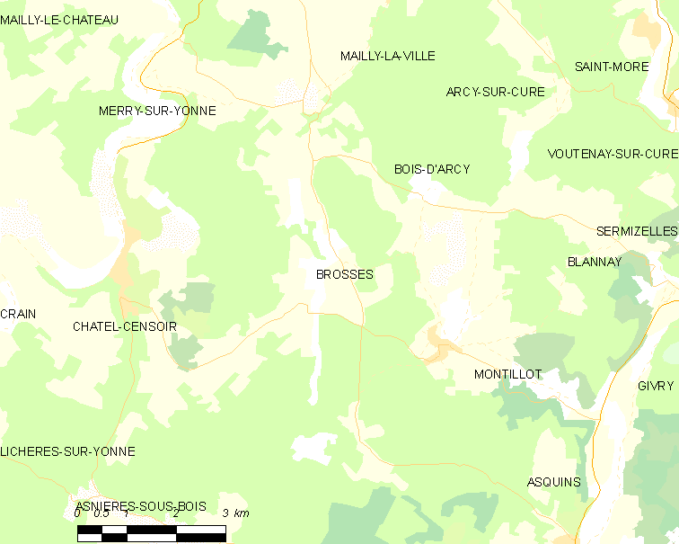 Map of French municipality Brosses